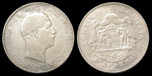 5 drachmae 1901, Cretan State